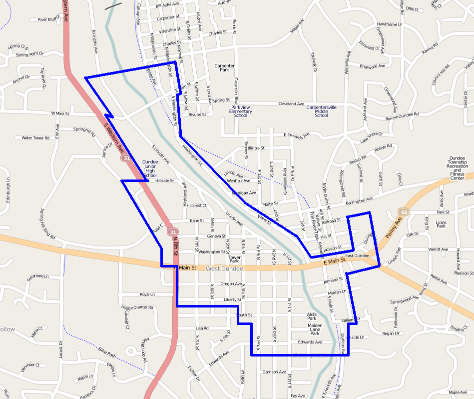 Dundee Township Historic District location in the upper Fox River Valley This map may be incomplete, and may contain errors. Don't rely solely on it for navigation.